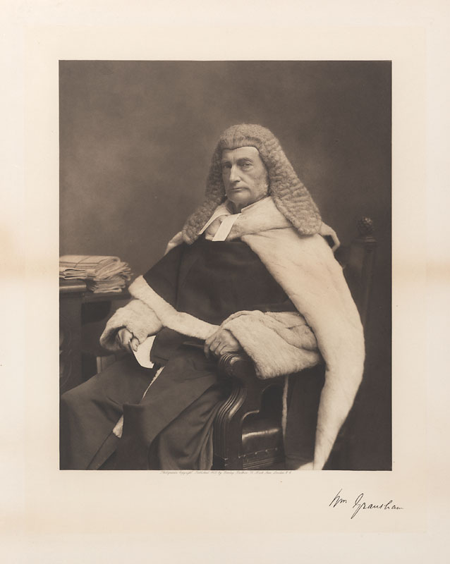 William Grantham (1835-1911)